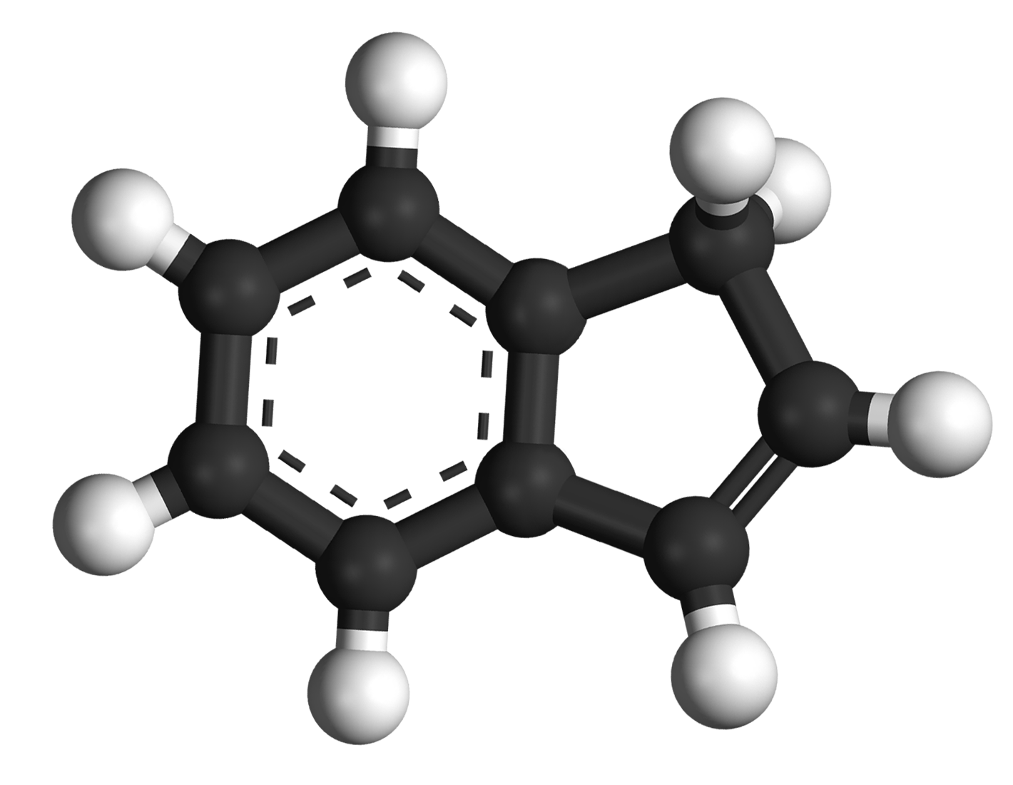 Ball and stick model of the indene molecule.